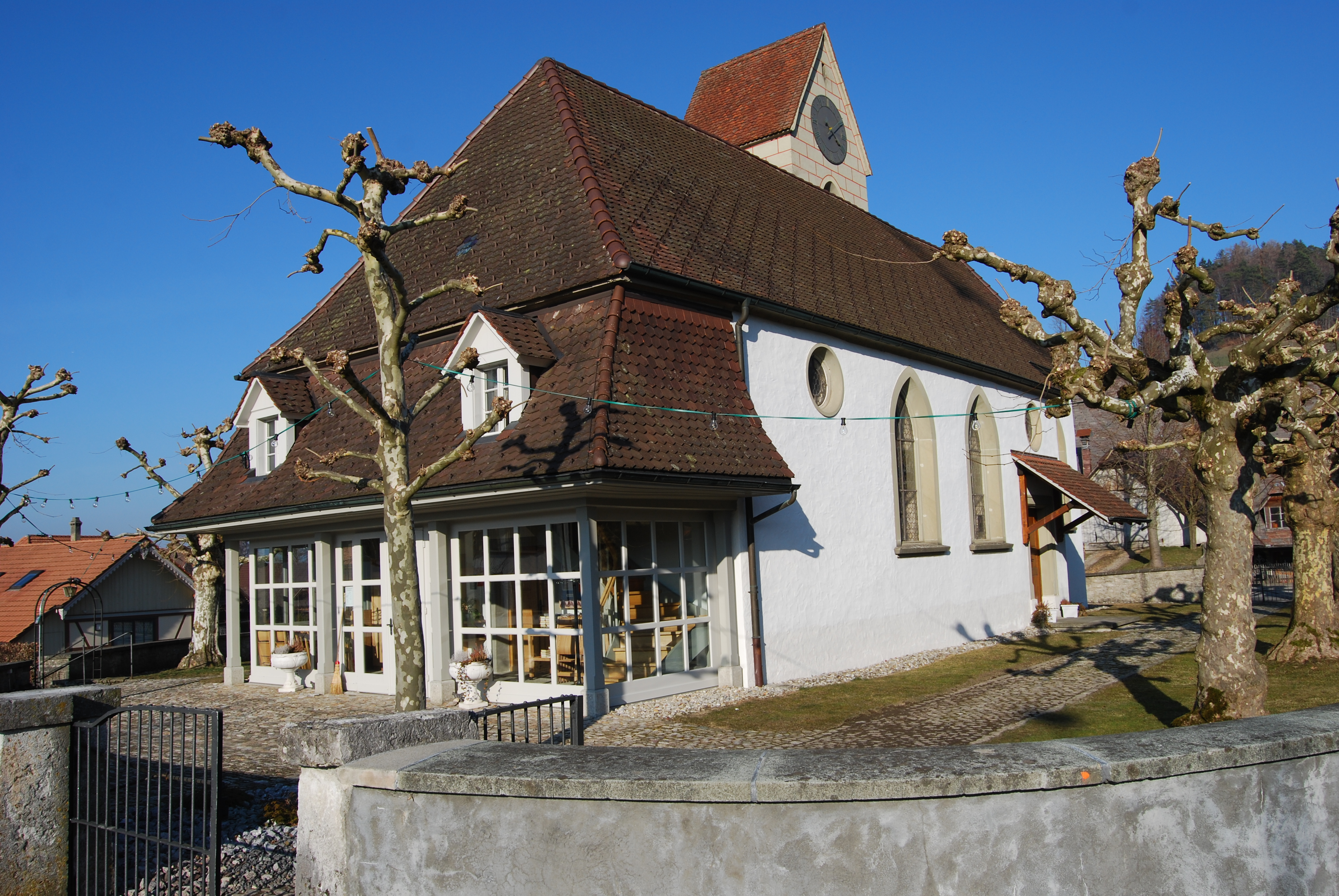 Protestant Church of Ursenbach, canton of Bern, Switzerland